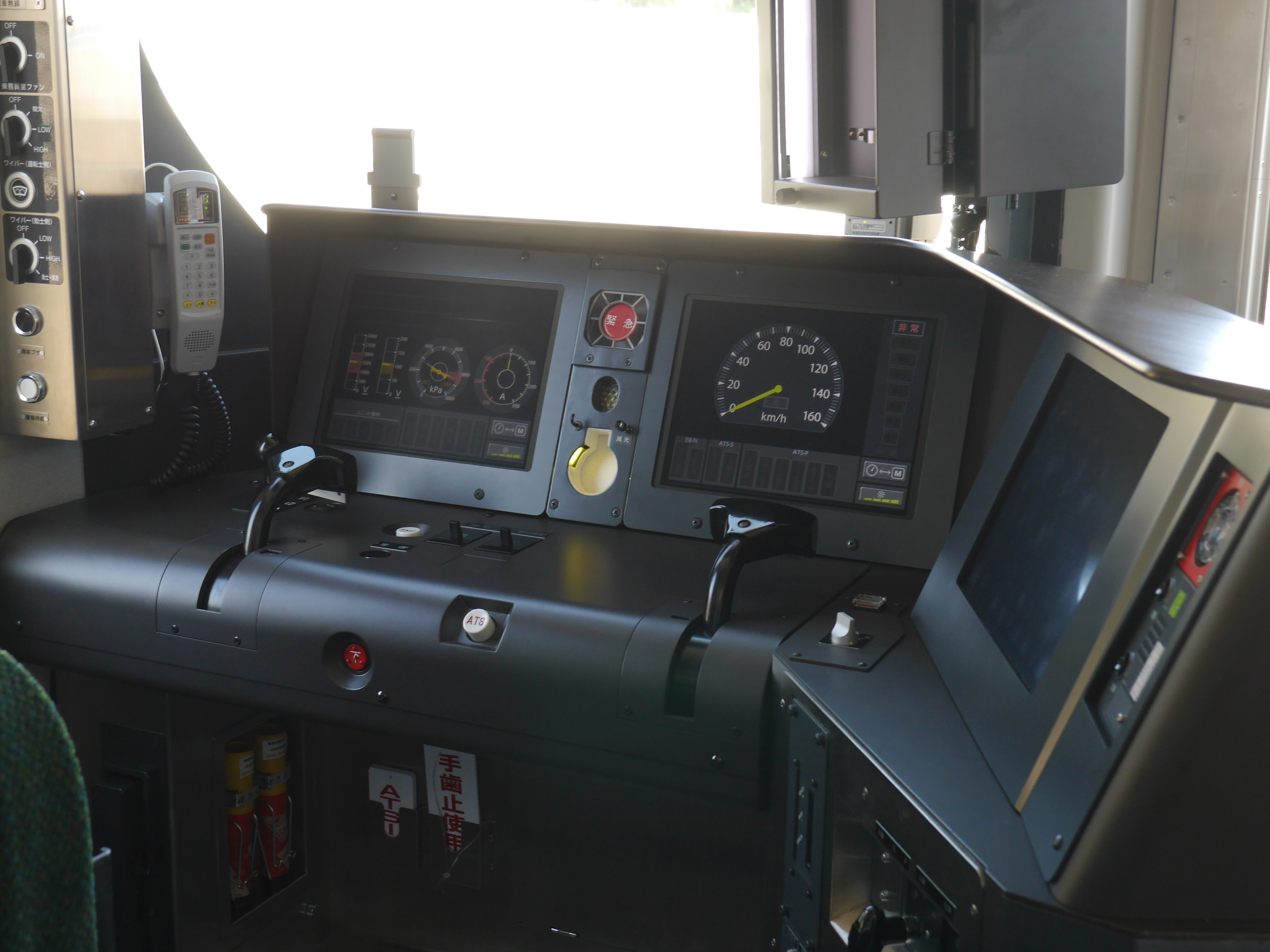 Driver's cabin on JR West KUMOHA 322-1 driving motor car